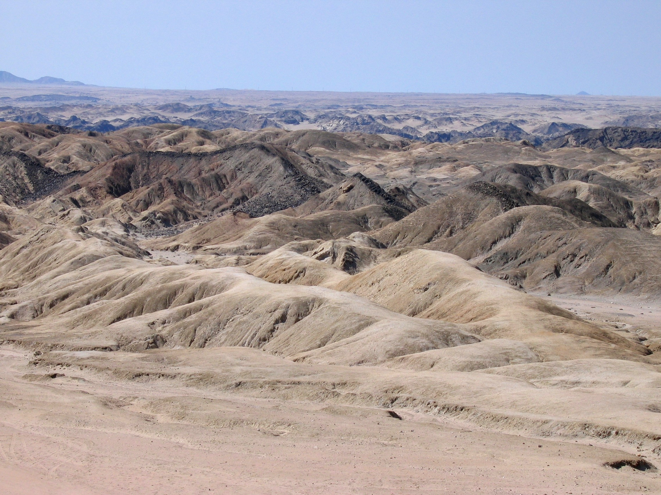 Moonlandscape